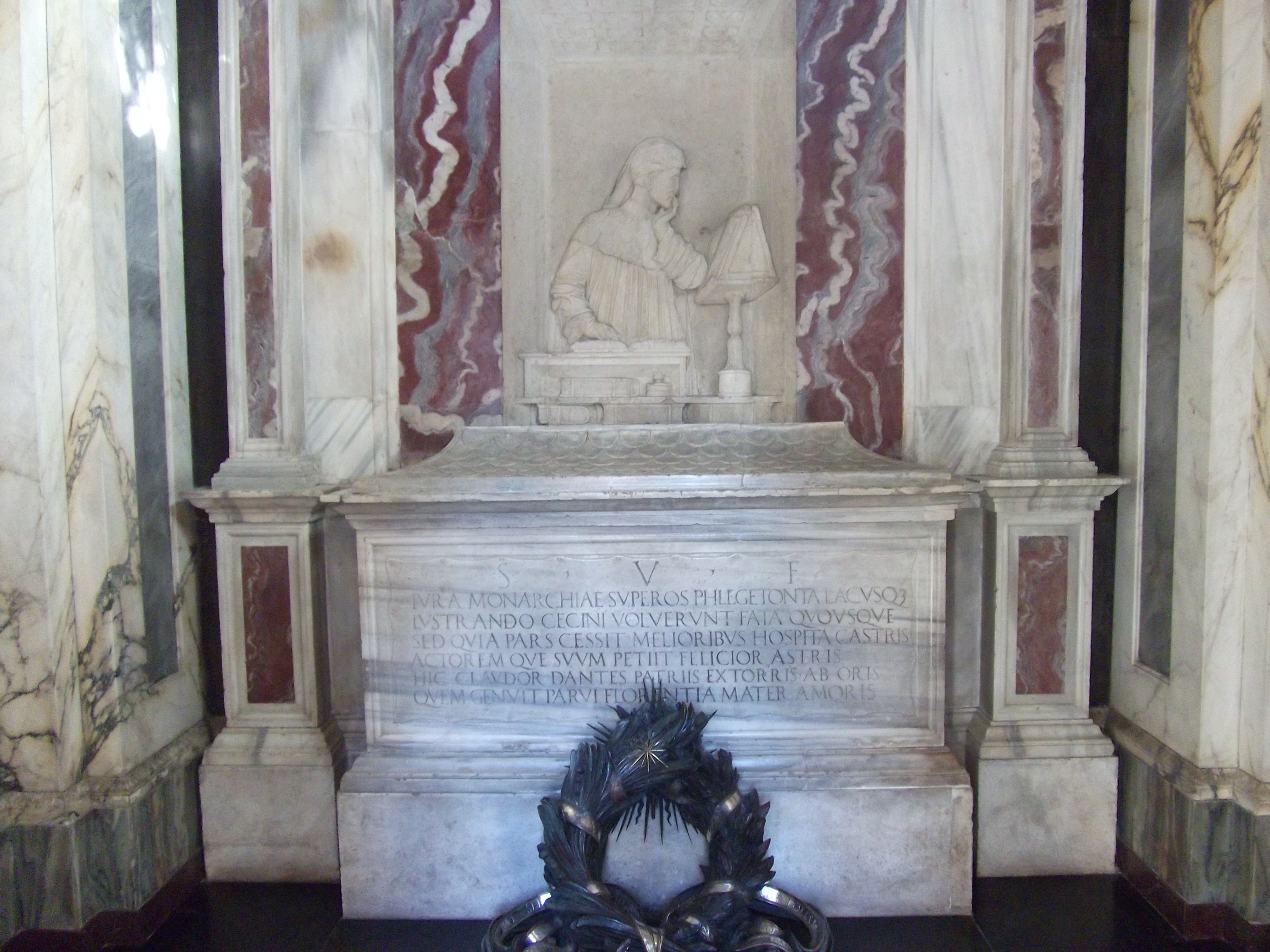 sarcophagus of Dante Alighieri